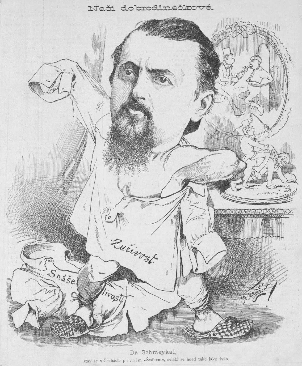 Cartoon of Franz Schmeykal (1826 - 1894), leader of etnic Germans in Bohemia, promoter of language division of Bohemia into "German" and "Czech & German" speaking regions. Strongly disliked by ethnic Czechs. The cartoon in a Czech-language satirical magazine shows him as putting on a shirt of "rage" (cs: zuřivost) while stepping on "tolerance" (cs: snášenlivost). The caption is a Czech language joke, based on having the same word (šváb) for "Schwab" (nickname for Germans) and "cockroach", and the the same one ("svlékl se") for "took off clothes" and "moulted": (more-less, "After becoming the first šváb, he changed as švábs do")